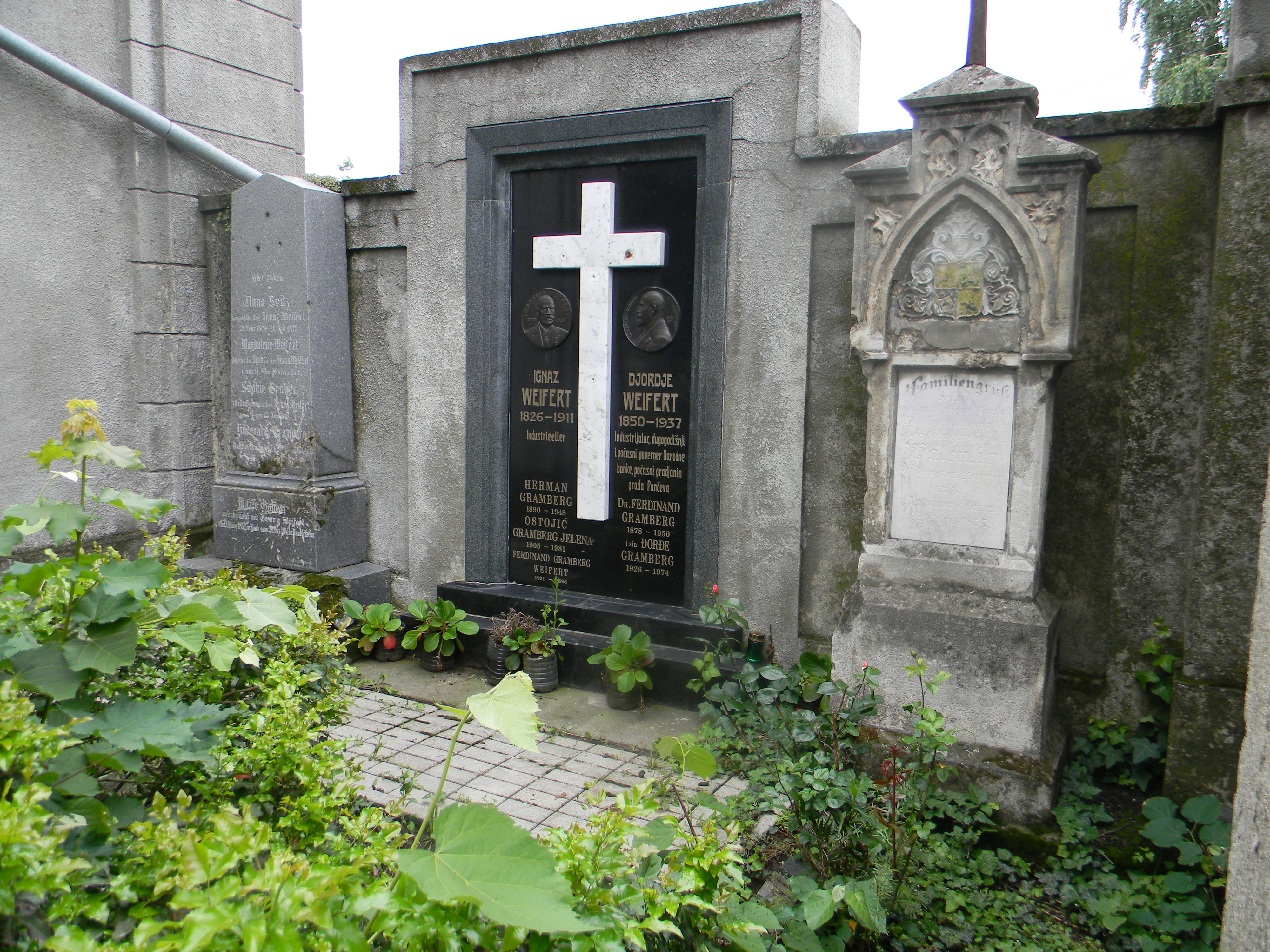 Catholic Cemetery founded by Weifert family, resting place of Georg Djordje Weifert (1850-1937), Ignac Weifert (1826-1911) and other members of Weifert family